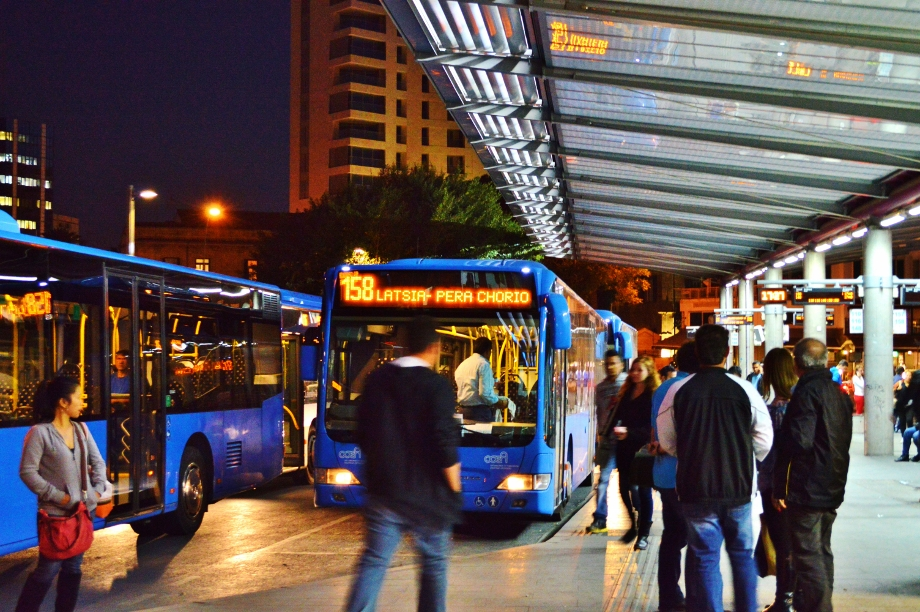 Solomos Bus Station by night Nicosia Republic of Cyprus